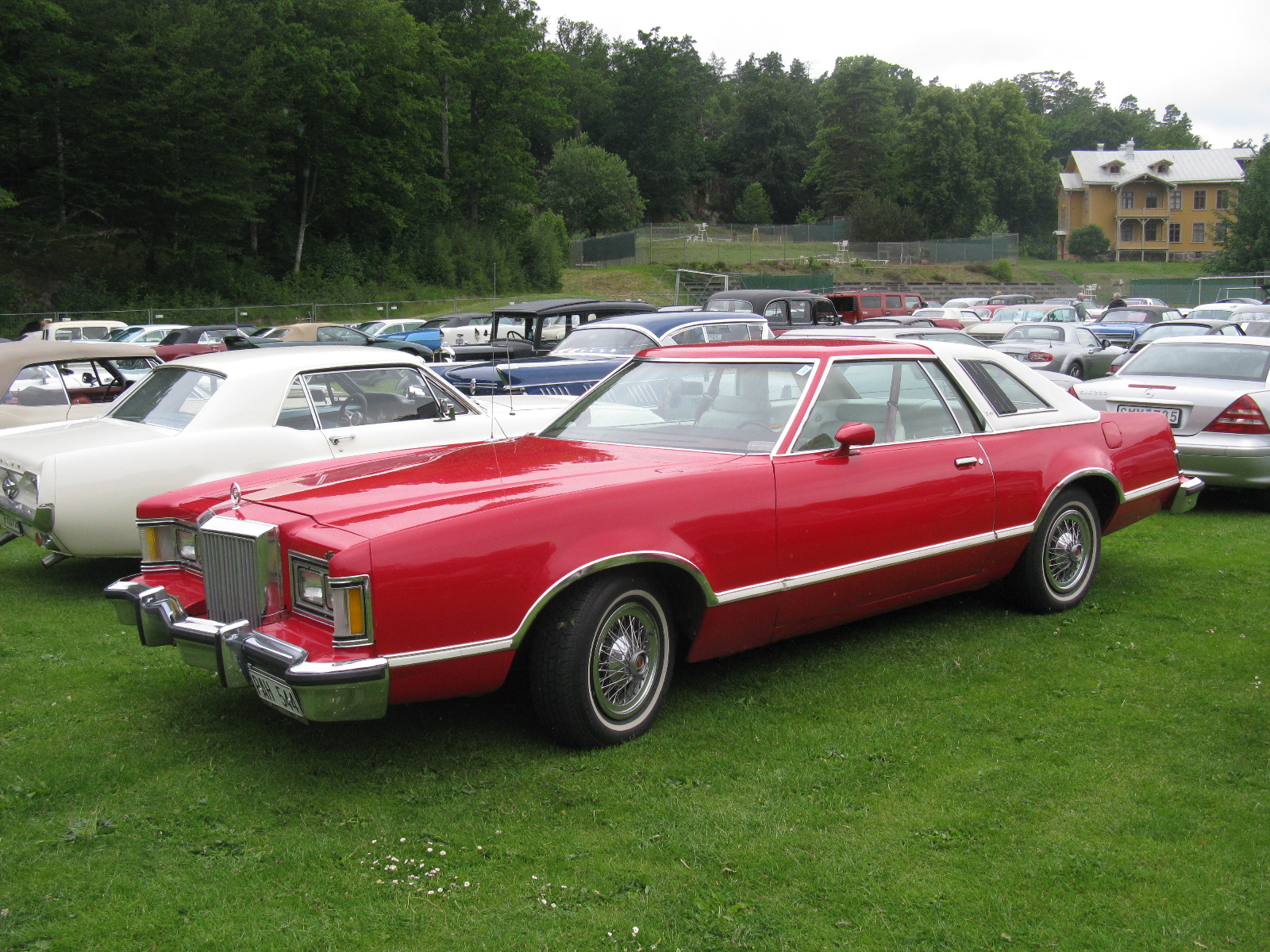 Mercury Cougar XR-7